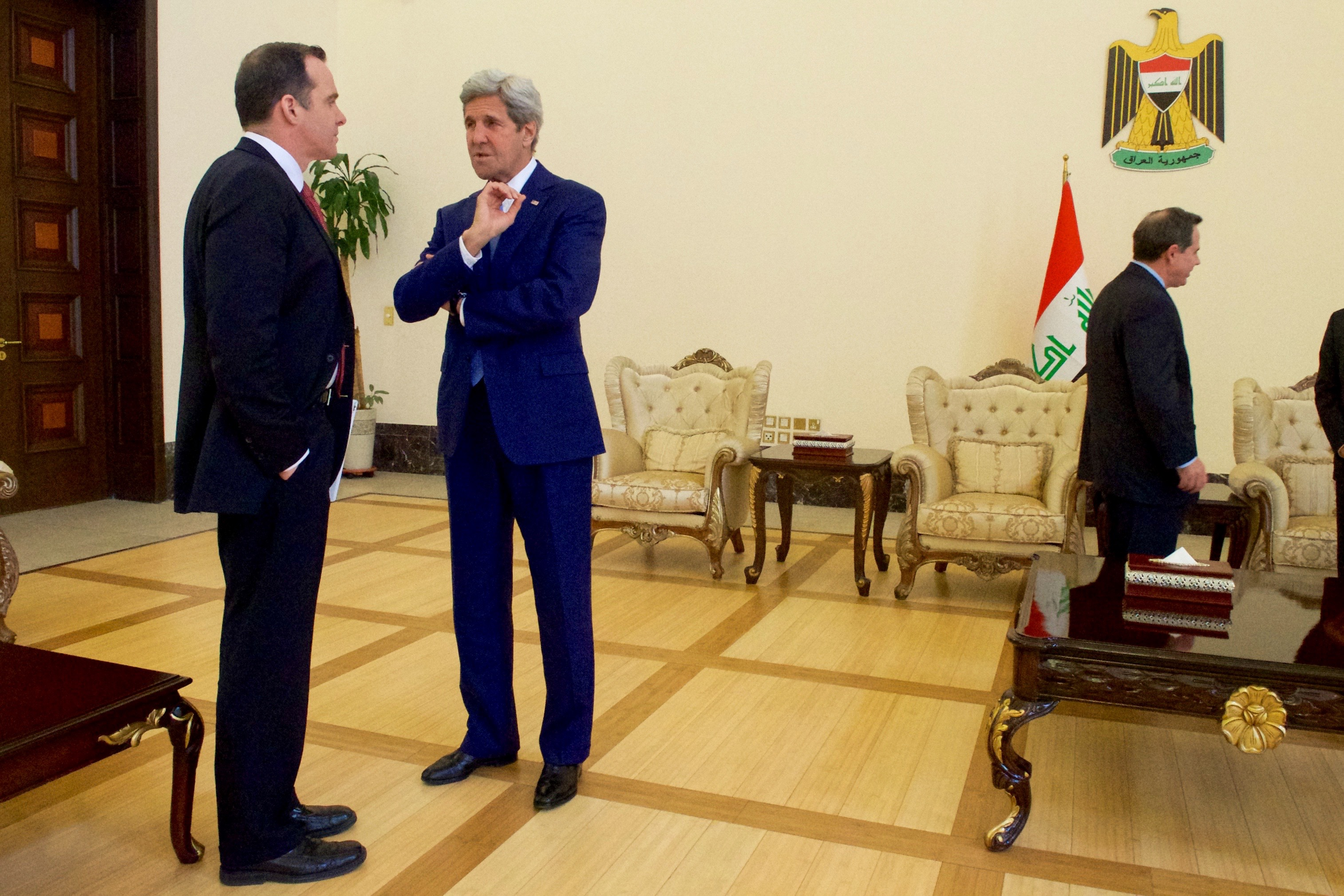 U.S. Secretary of State John Kerry shakes hands with Special Presidential Envoy for the Global Coalition to Counter ISIL Brett McGurk on April 8, 2016, at the U.S. Embassy in Baghdad, Iraq, following a helicopter flight from Baghdad International Airport in advance of meetings with Iraqi Prime Minister Haider Al-Abadi, Foreign Minister Ibrahim al-Jaafari, and Kurdistan Regional Government Prime Minister Nechirvan Barzani. [State Department Photo/Public Domain]